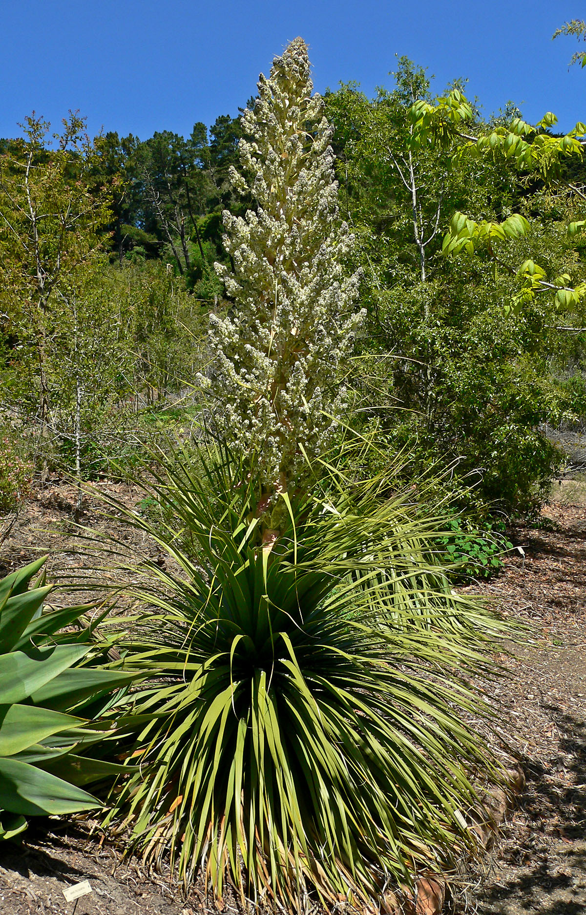 Nolina siberica (or Nolina sp. 'La Siberica') at the University of California Botanical Garden, Berkeley, California